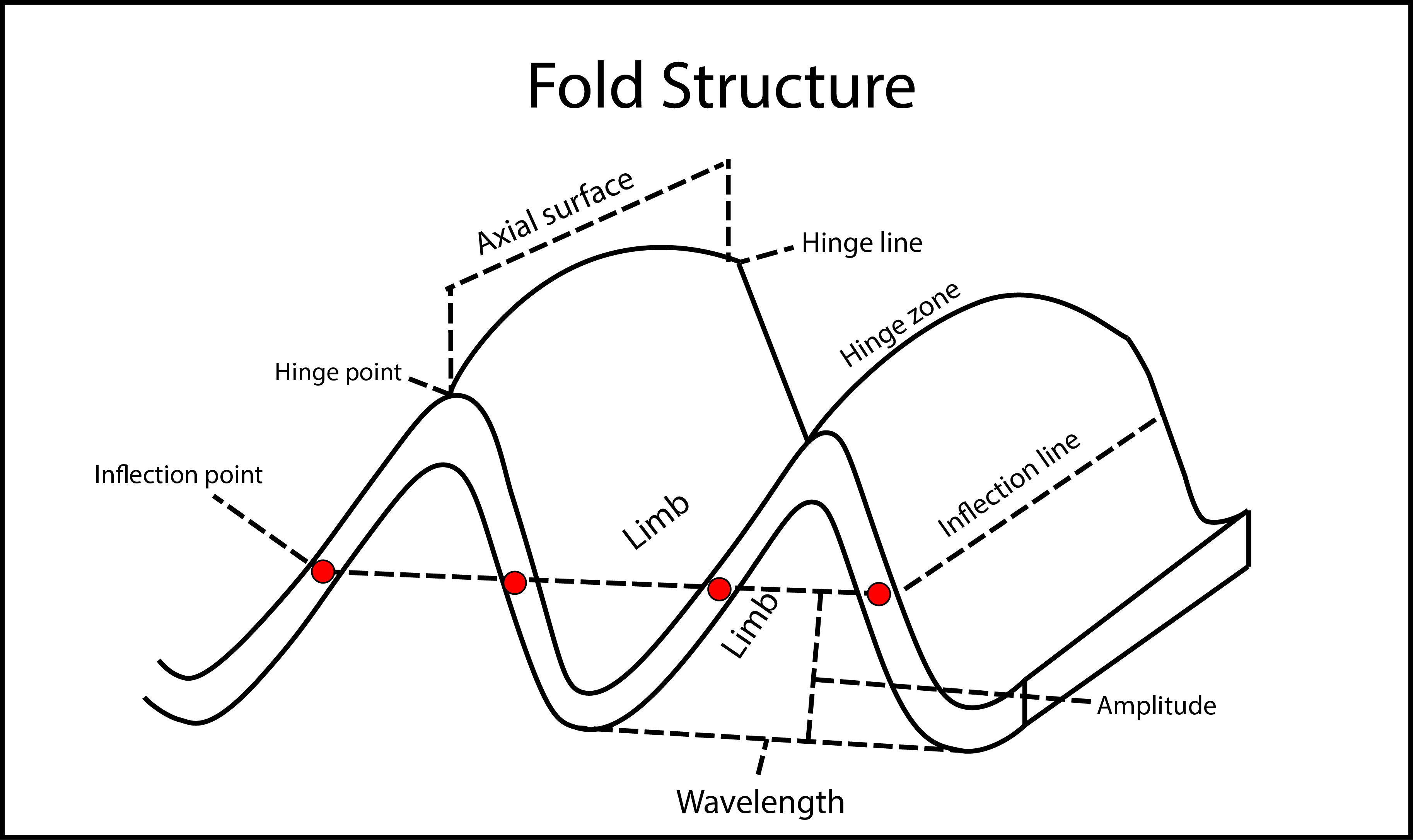 A diagram showing the basic structure of a fold